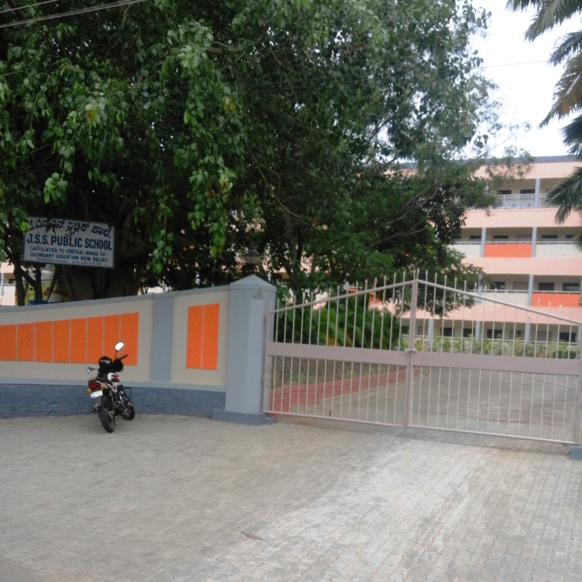 Mysore city, Karnataka province, India.